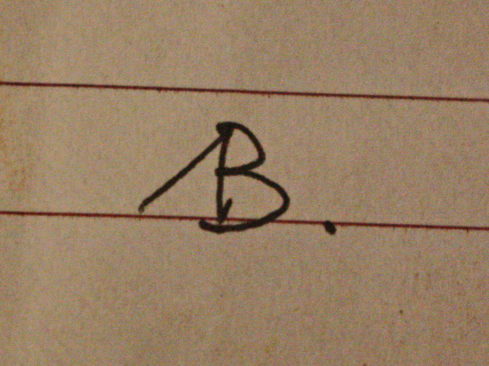 Close-up of a monogram of the playwright Vadim Levanov, postal envelope